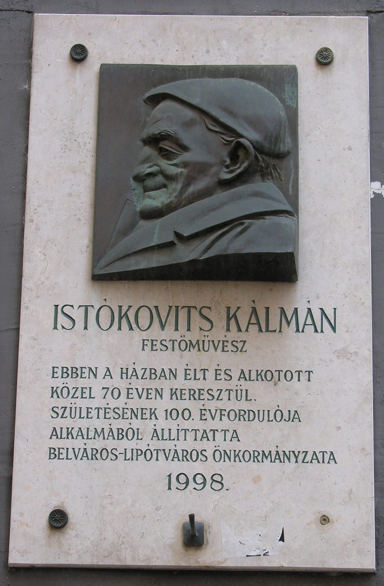 Commemorative plaque of Kálmán Istókovits in Budapest District V, Szép Street No 5